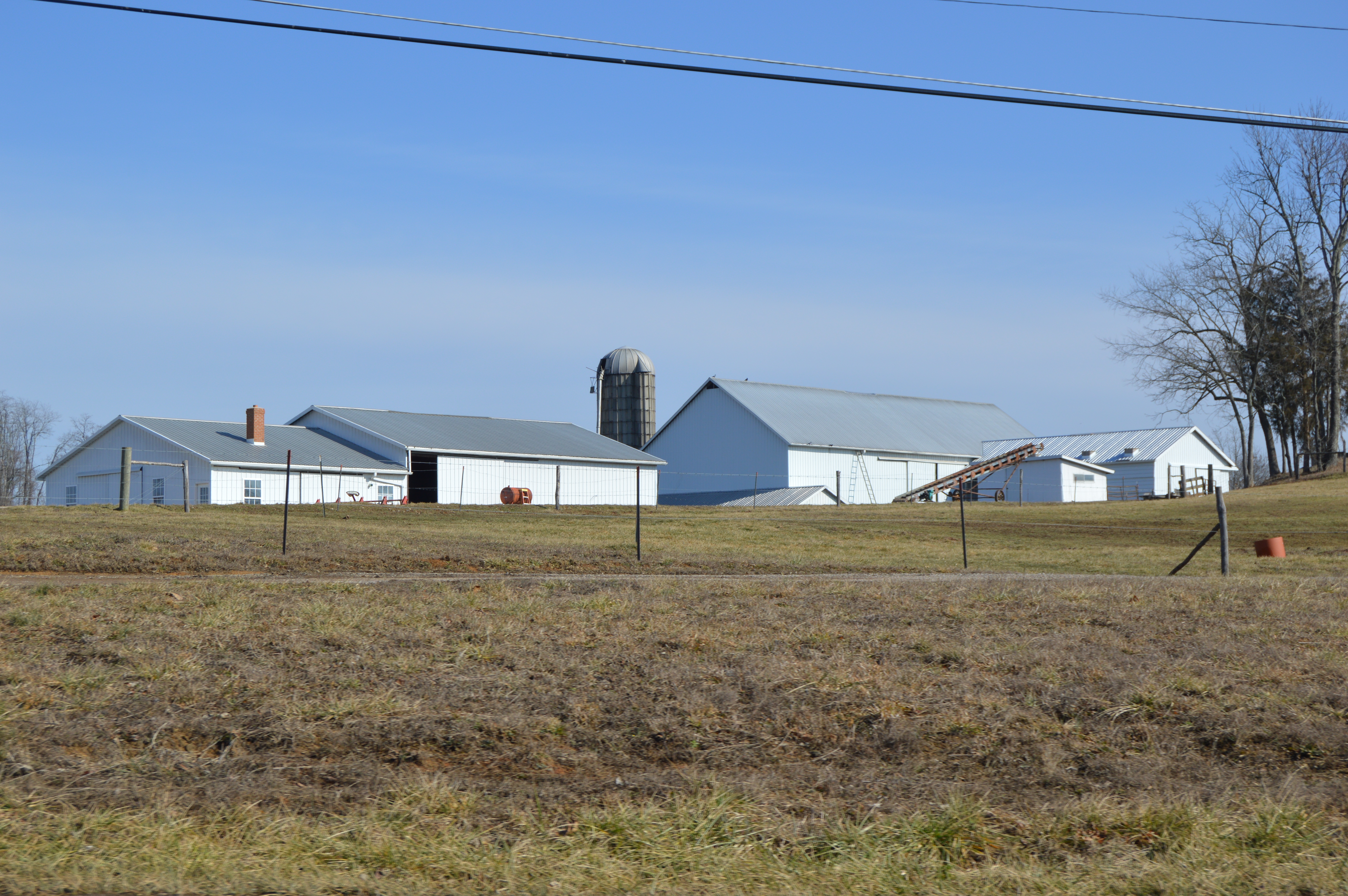 Roadside view of a farmstead on State Route 160 just east of Vinton in Morgan Township, Gallia County, Ohio, United States.